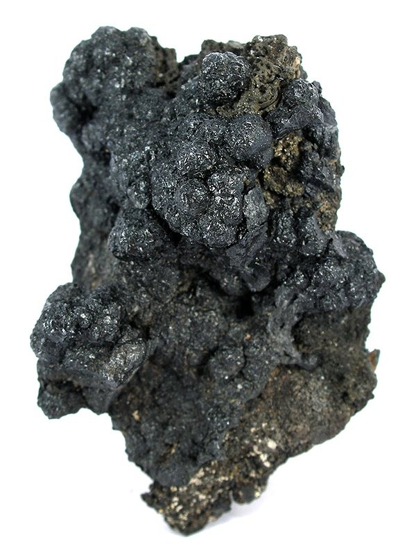 Argyrodite Locality: Himmelsfürst Mine, Brand-Erbisdorf, Freiberg District, Erzgebirge, Saxony, Germany (Locality at ) Size: 4.9 x 3.2 x 2.3 cm. Argyrodite is one of the rarest collectible silver species to obtain in a good display specimen. Argyrodite is an extremely rare GERMANIUM-containing silver sulfide and occurs at its best from this type locality (late 1800s) and from Bolivia as well (same era, into the early 1900s). Year of Discovery: 1886 at this, the type locality. This particular specimen is actually "beautiful" as far as they go, because it has some 3-dimensionality and can be displayed to show dramatically the clusters of 3-4mm Argyrodite crystals atop. They rest on a matrix of pyrite and silver ore. VERY fine display miniature! From the miniature rarities suite of Lawrence Conklin.